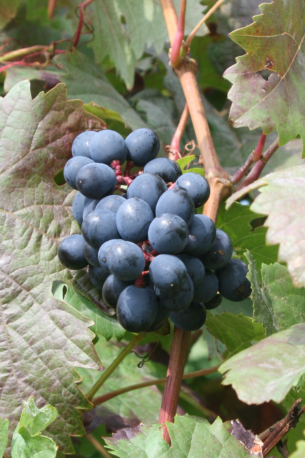 Grapes and leaves of the grape variety Dunkelfelder, photographed at the viticulture trail on the Schemelsberg hill in Weinsberg